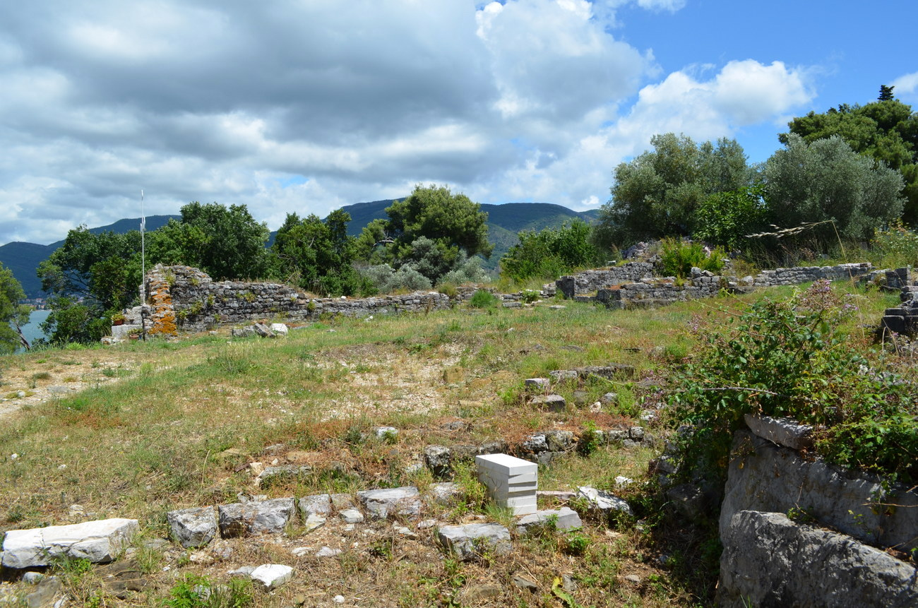 Ruins of monastery at Prevlaka, Montenegro